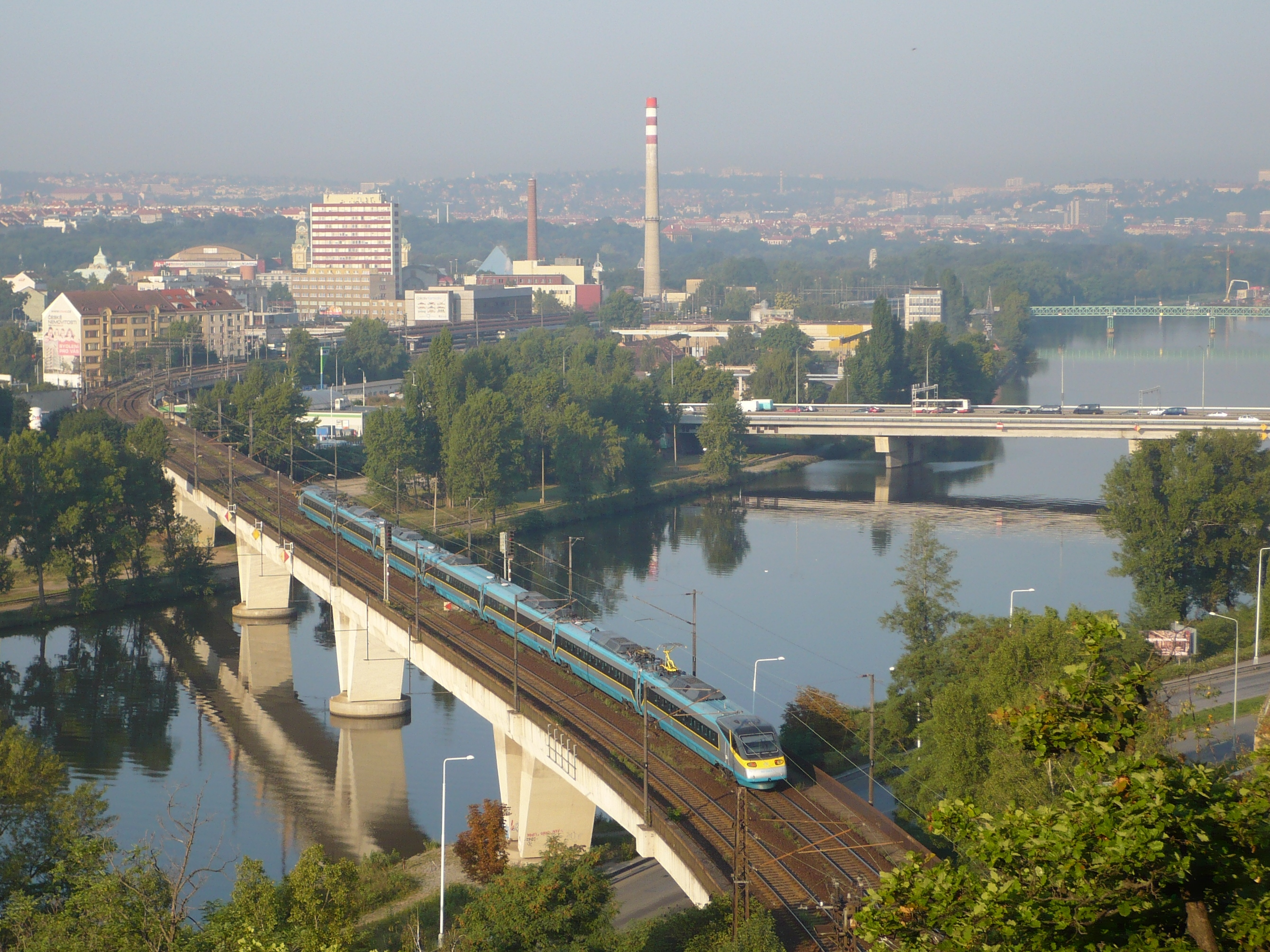 An electric multiple unit ČD Class 680 Pendolino approaching railway station Prague-Holešovice. The railway bridge has no official name, it is usually referred to as Železniční most pod Bulovkou. The road bridge in the middle is Most Barikádníků. The farthest bridge is a tram bridge connecting Holešovice and Troja (demolished in 2014). The high chimney belongs to heating company Pražská teplárenská.